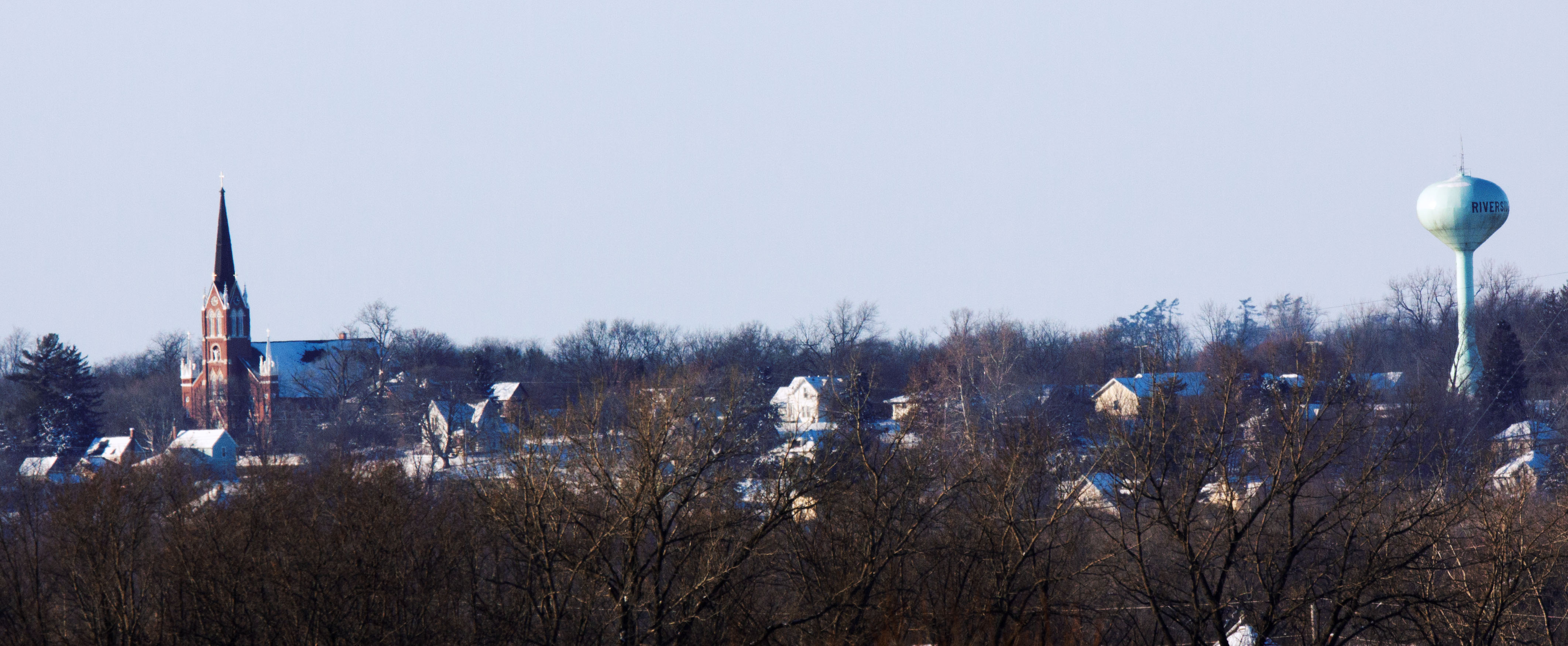 View of Riverside, IA showing the water tower and St. Mary's Catholic Church.